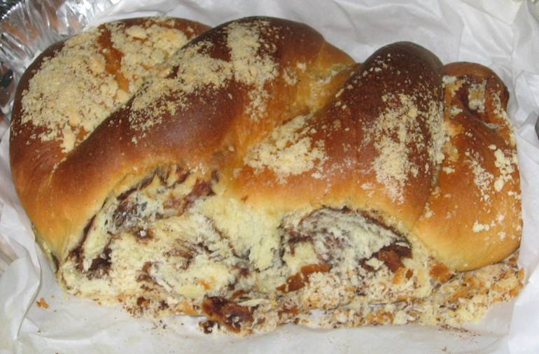 Chocolate babka, with streusel topping.